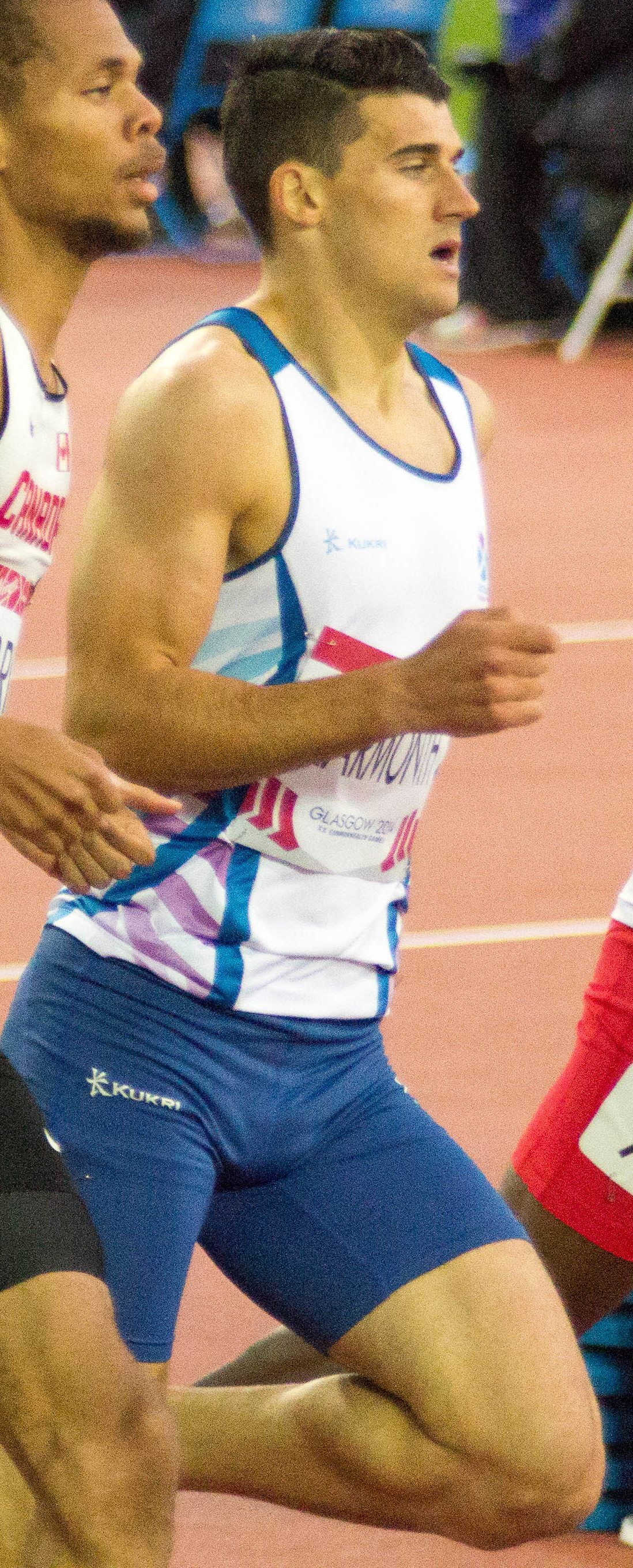 IMG_1841.jpg 2014 Commonwealth Games Day 4: Athletics